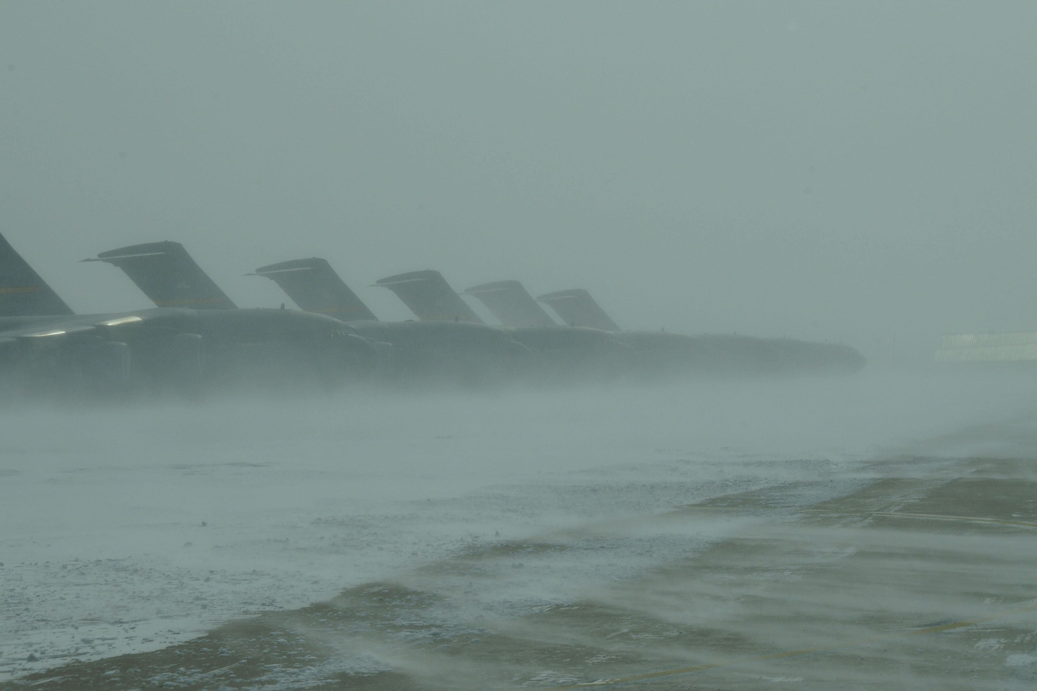 Altus Air Force Base C-17 Globemaster III’s sit on the flight line to weather the storm as the rest of the base works to clear snow and prepare to reopen training after classes were canceled due to inclement weather Feb. 1. The storm that rolled through Altus affected much of the nation.